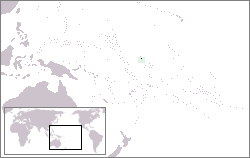 Map of the location of the Baker Island in the Pacific Ocean